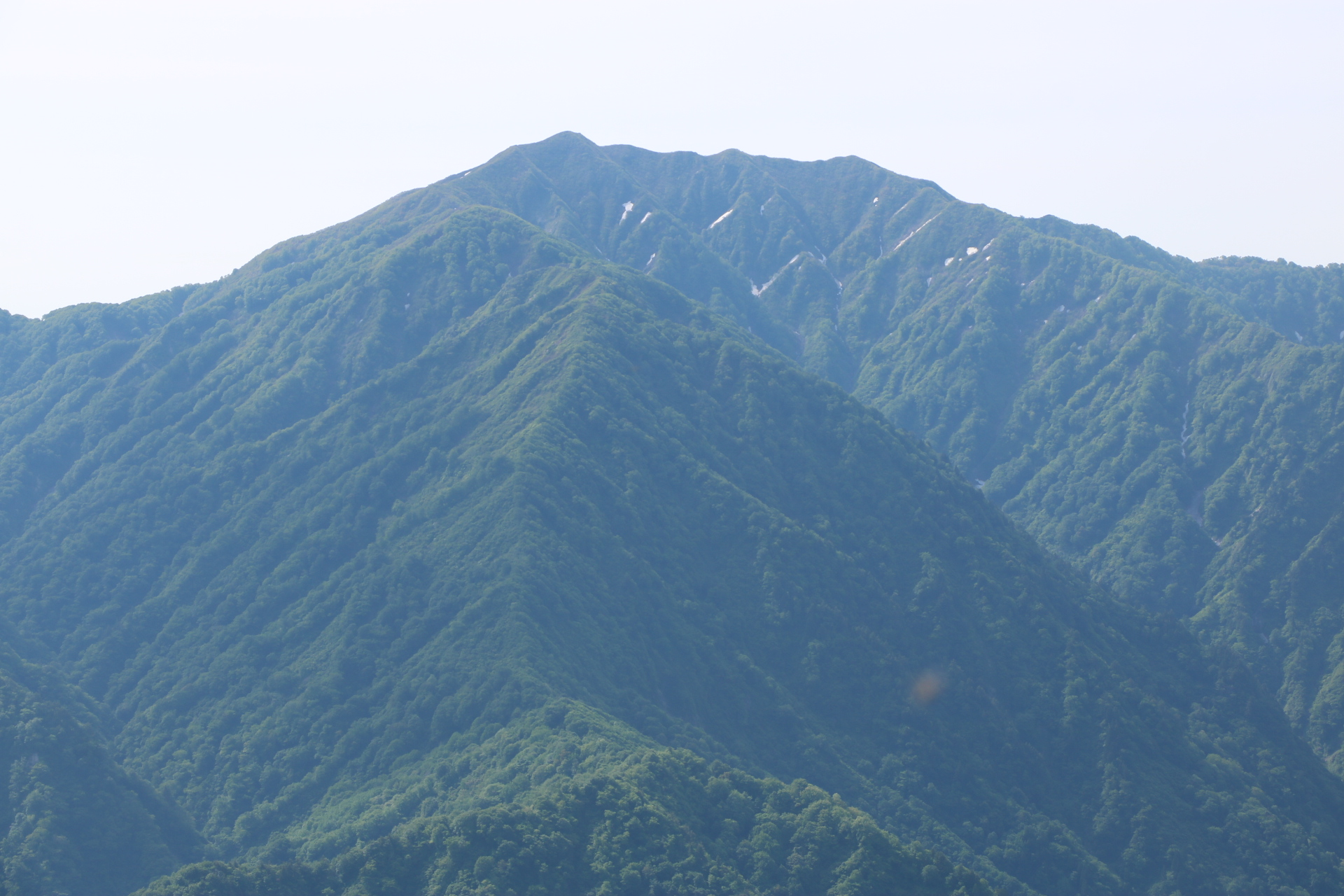 Hirubayama seen from the NNW. Taken from Yakemineyama.